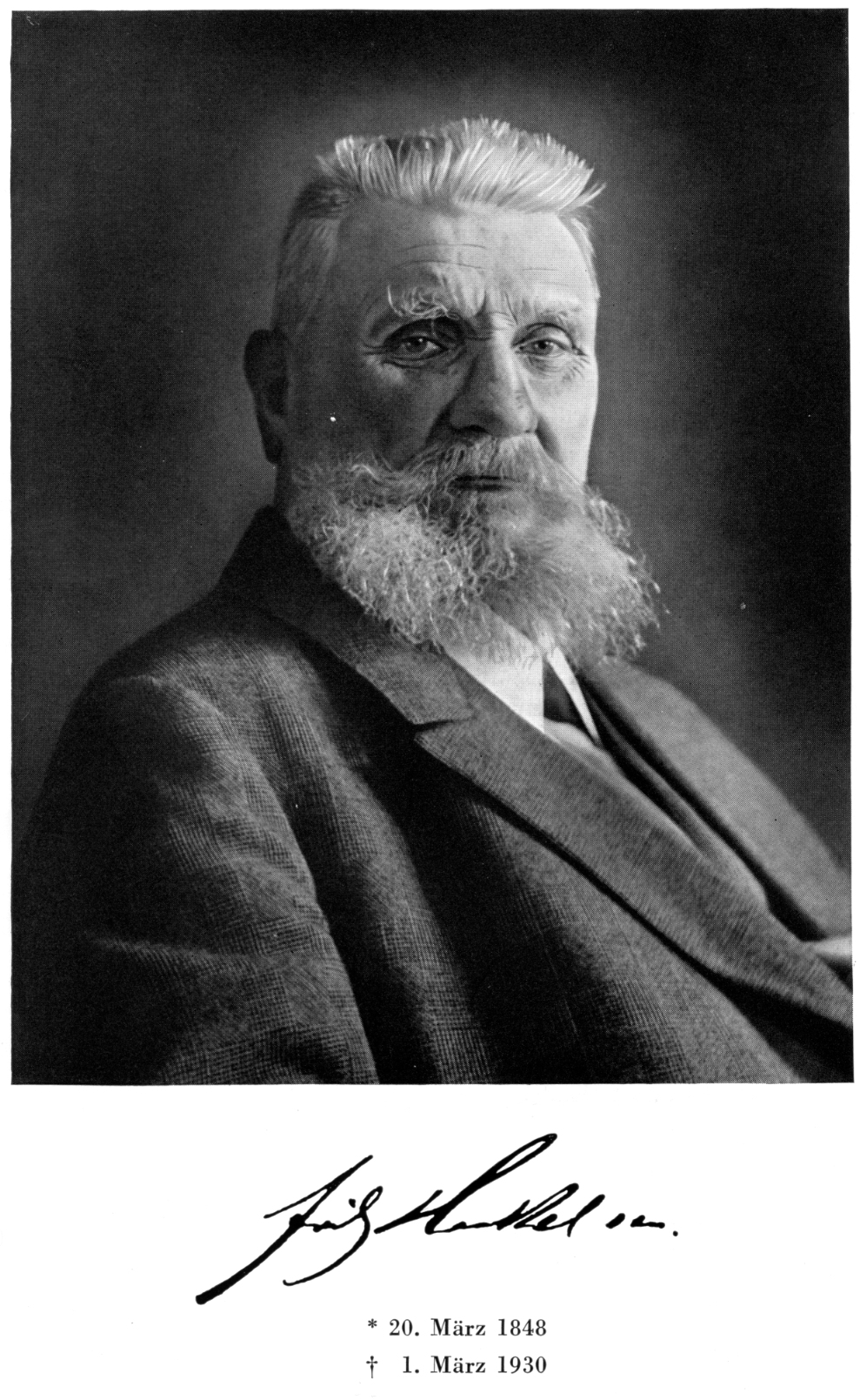 Friedrich Karl Henkel (1848–1930), founder of Henkel